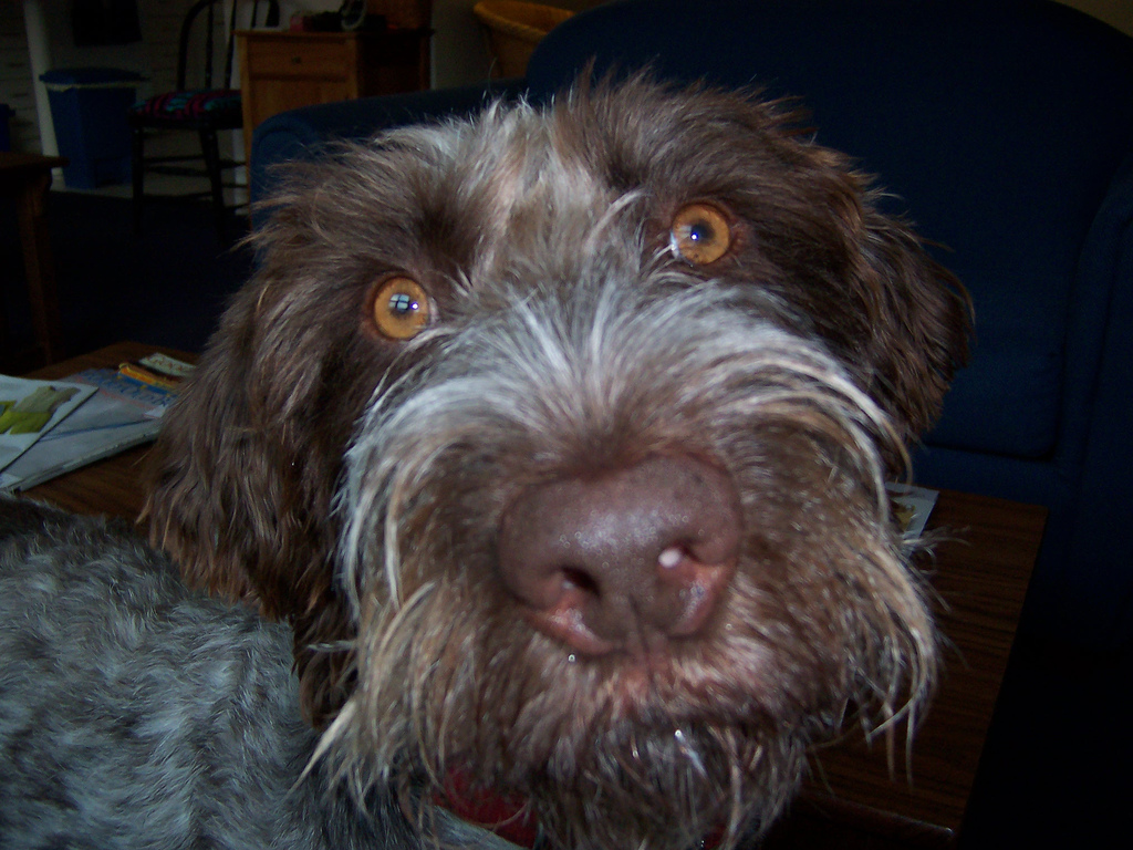 German Wirehair Pointer